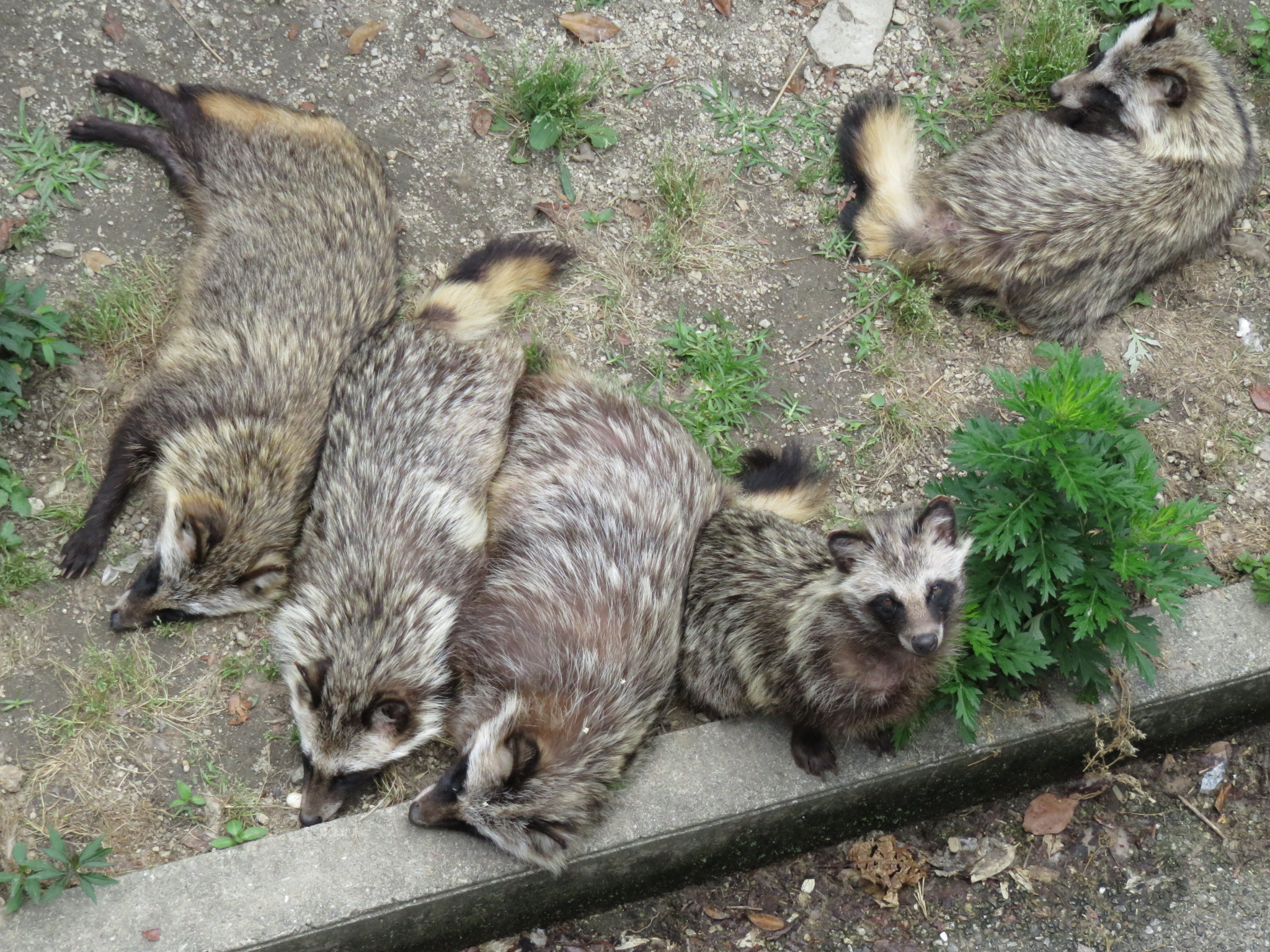 Nyctereutes procyonoides, also known "Tanuki", in Higashiyama Zoo, Aichi, Japan